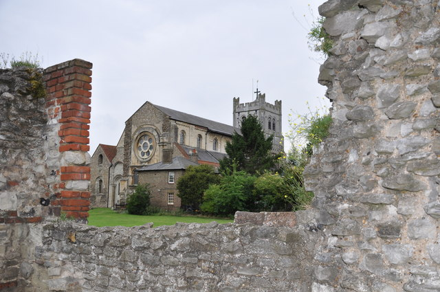 Looking through Abbey House ruins to Waltham Abbey.